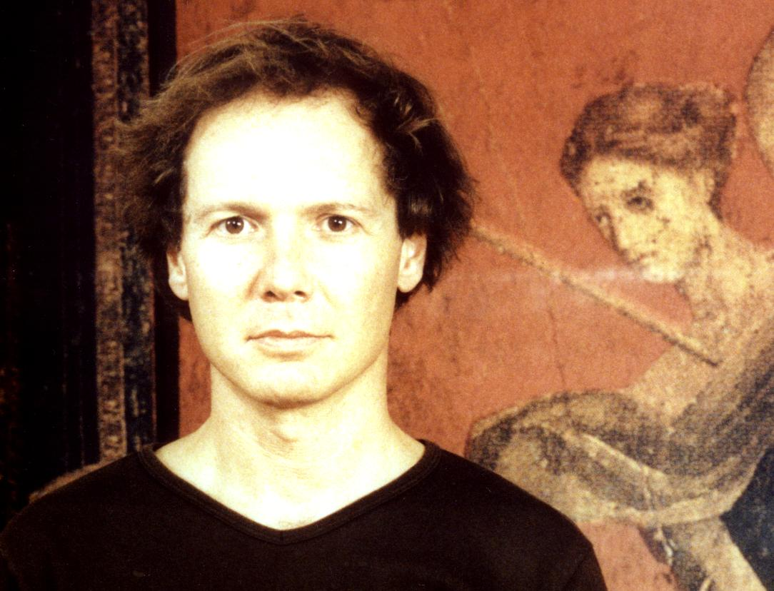 Picture of Ivan Stanev